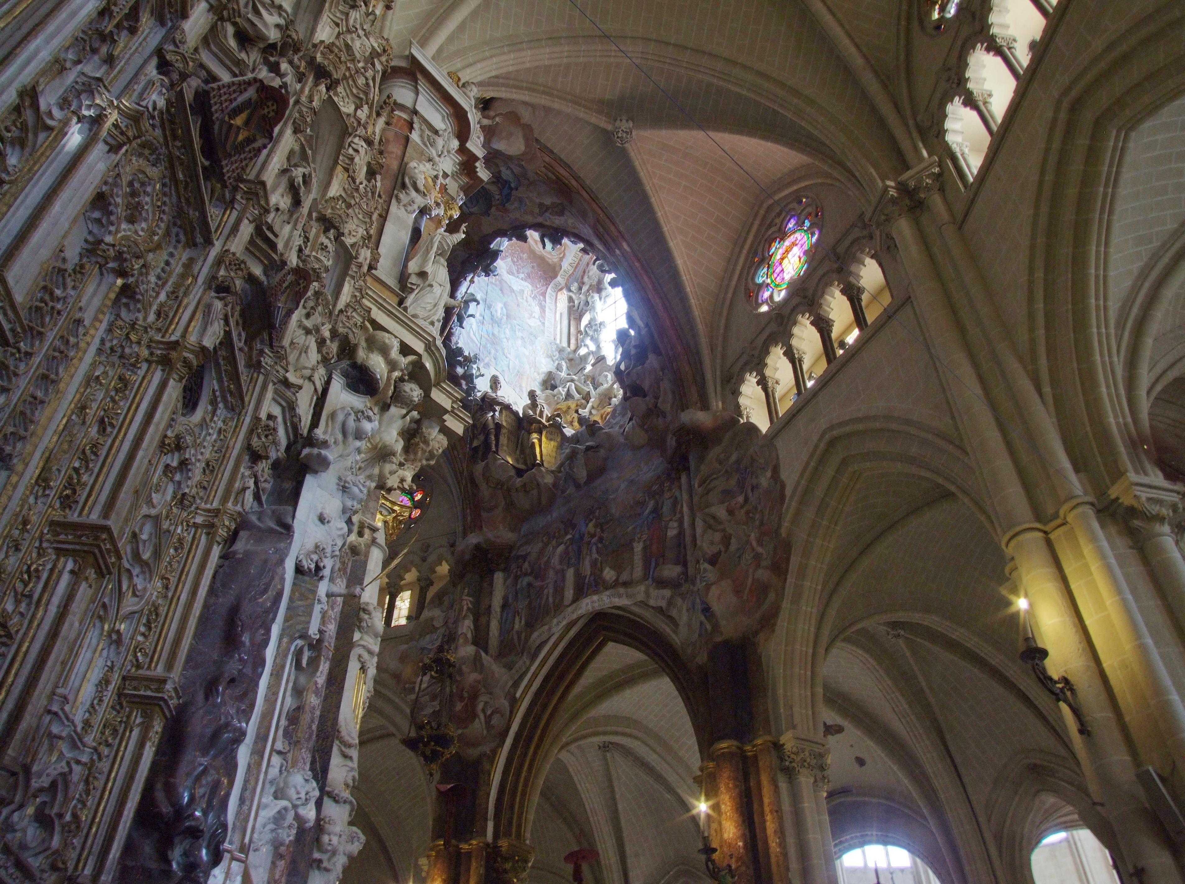 Clear of the Cathedral of Toledo, Spain